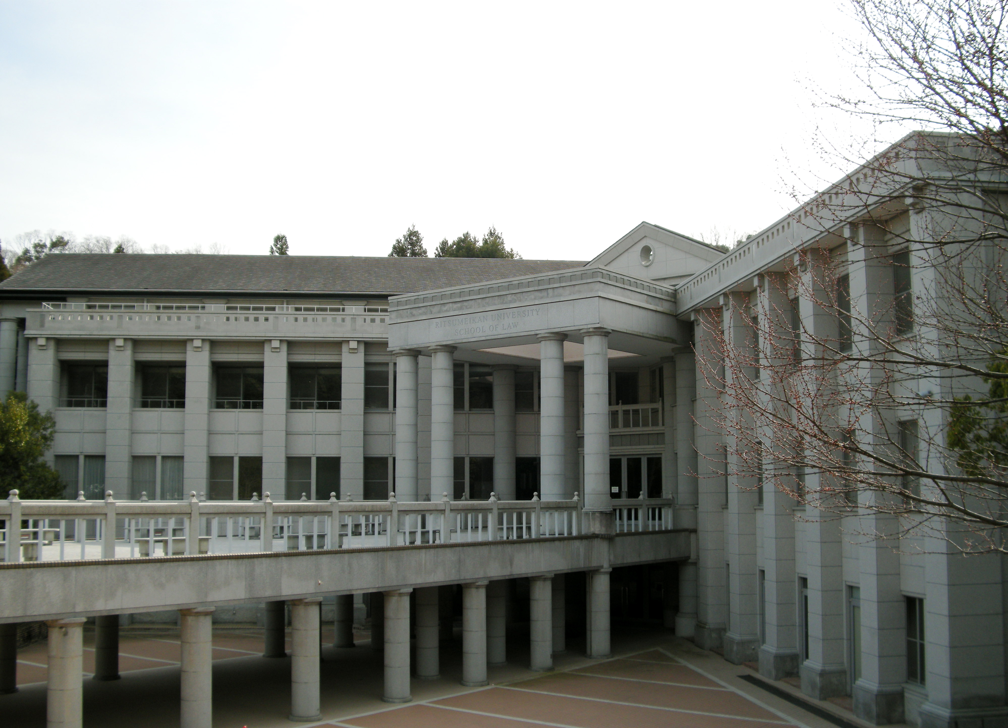 Photograph of Saionji Memorial Hall of Ritsumeikan University, Kyoto, Japan